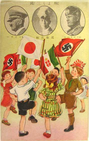 Japanese Postcard published in 1938 - Portraits of Hitler, PM Konoe and Mussolini - Children waving German, Italian, and Japanese flags (Anti-Comintern Pact)